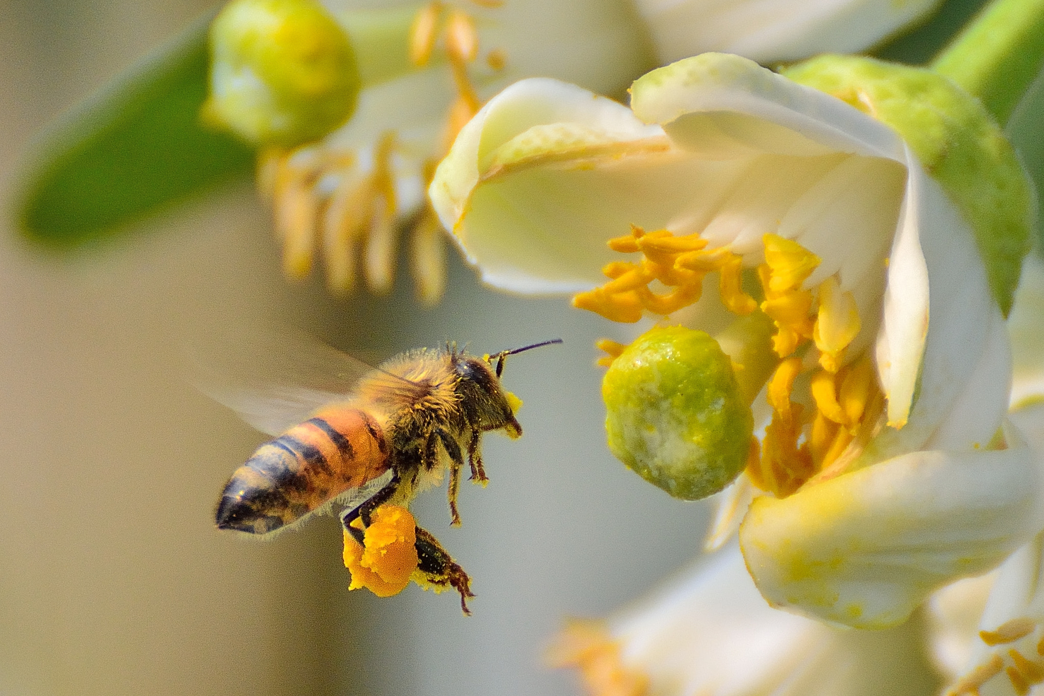 500px provided description: Bee [#Nature ,#Flowers ,#Taiwan ,#Bee]